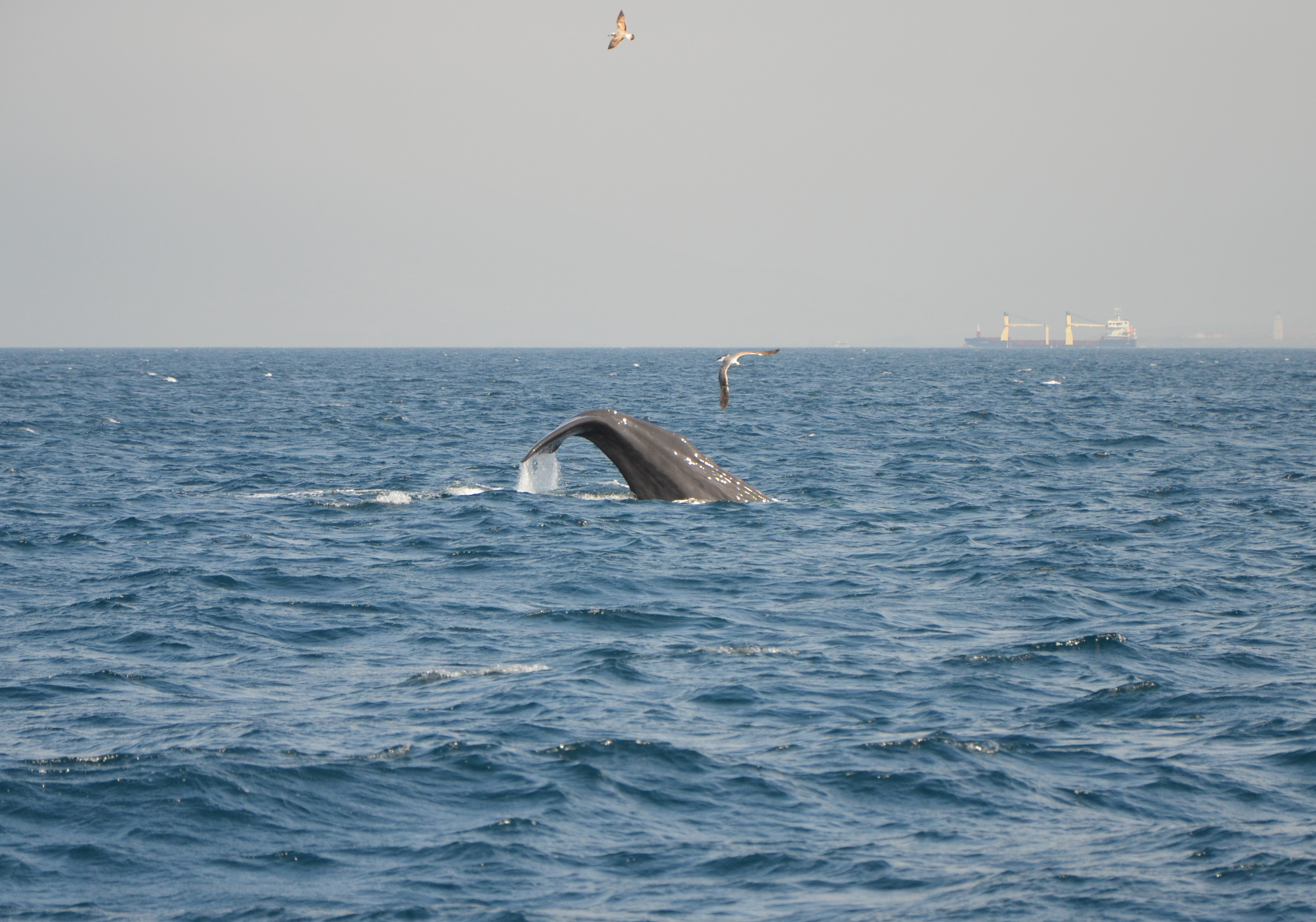 Tail of a diving sperm whale (Physeter macrocephalus) in the Strait of Gibraltar.